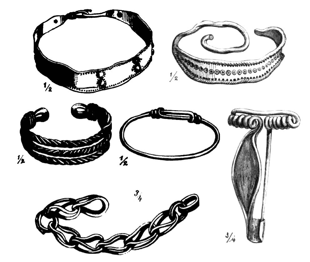 Archaeological finds Ancient Dacia; Silver treasure (Bronze Age) from Cerbal (Hungarian Cserbel, Romanian Cerbăl) Hunedoara county Romania It includes silver bracelets, fibulae and chain fragment